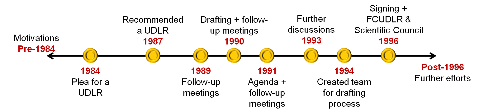 Timeline of the UDLR